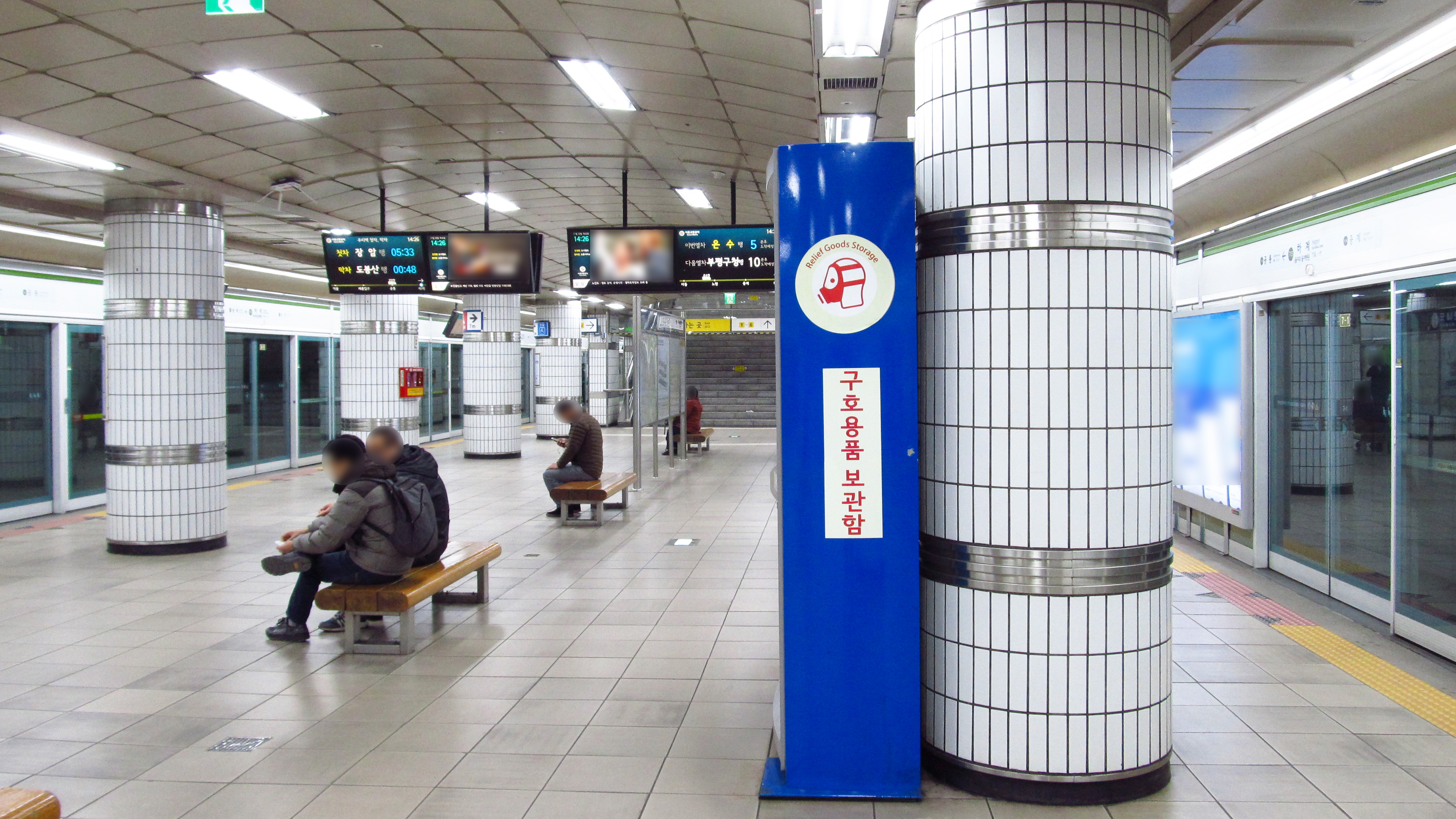 The platform at Hagye Station on Seoul Subway Line 7 in Nowon-gu, Seoul, Republic of Korea(South Korea)